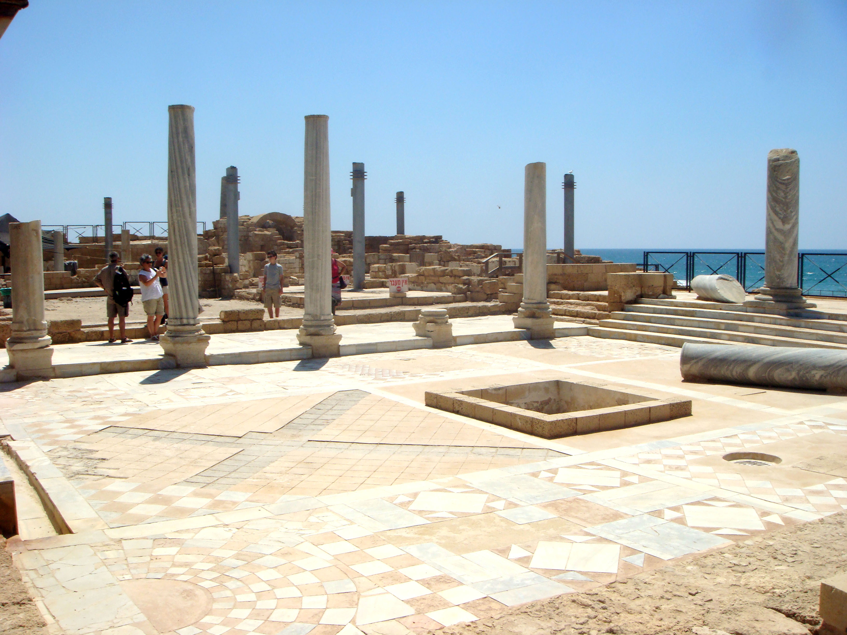 Floor built with the method of the Opus sectile in Caesarea Maritima (Israel).